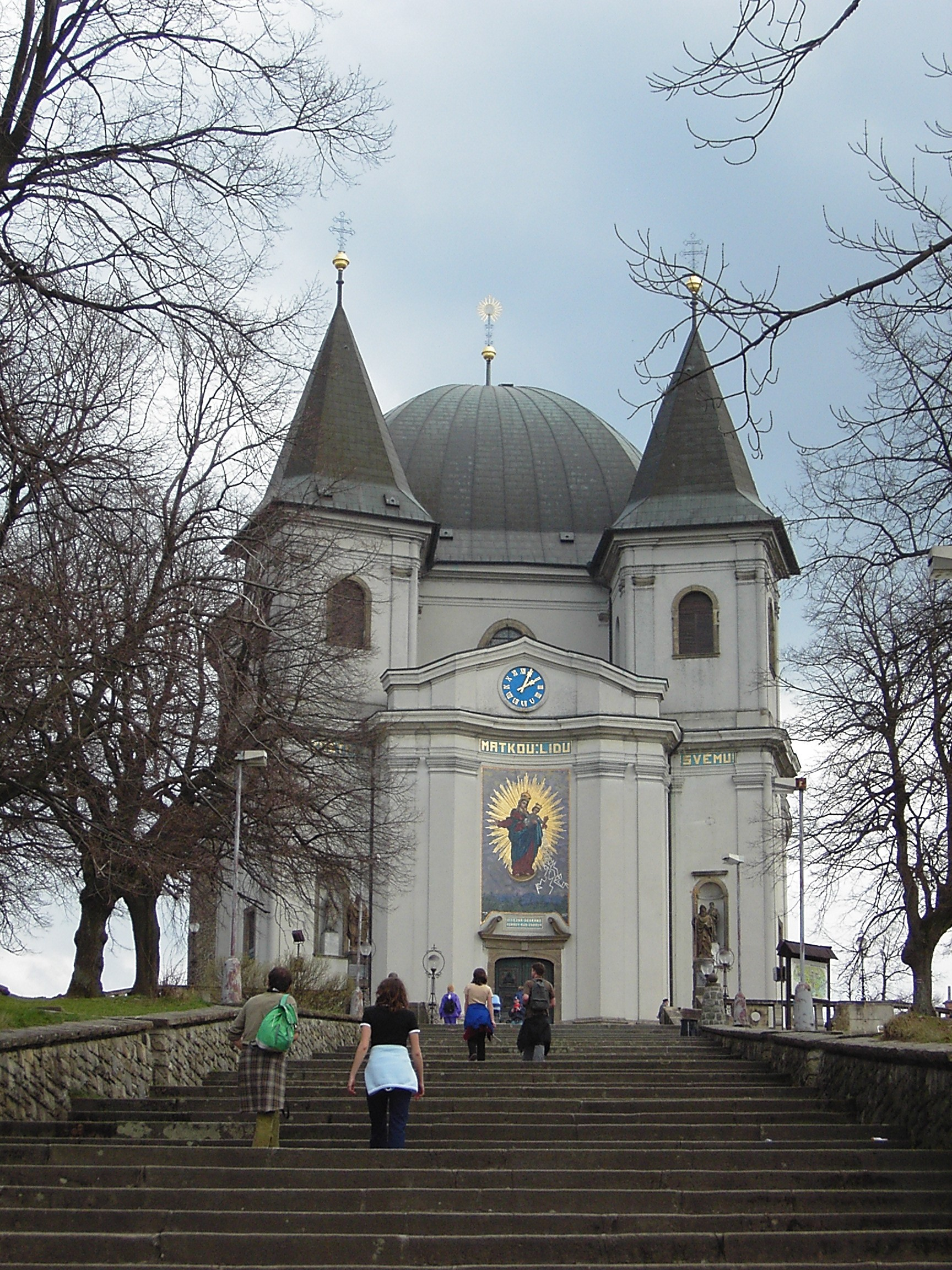 Church on the Hostýn